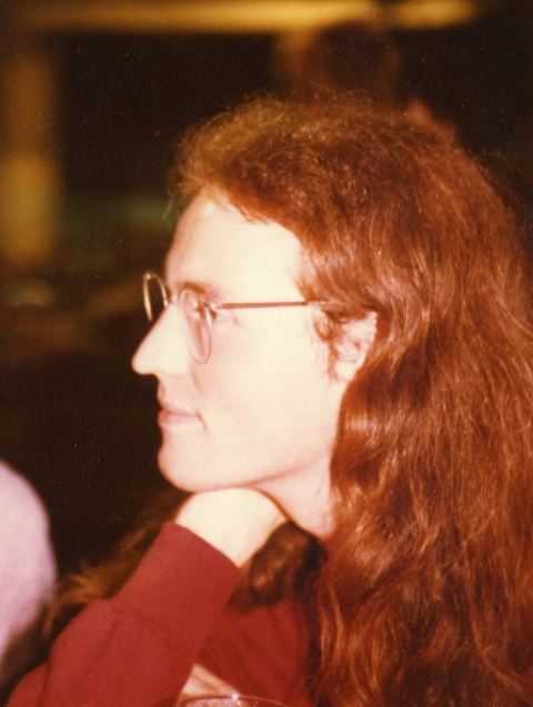 Andreas Floer, summer 1983 (At the backside of another picture from the same day I found that it was taken in summer 1983) Attribution to: "Kurt Heim and Rolf Kaiser, Bochum"